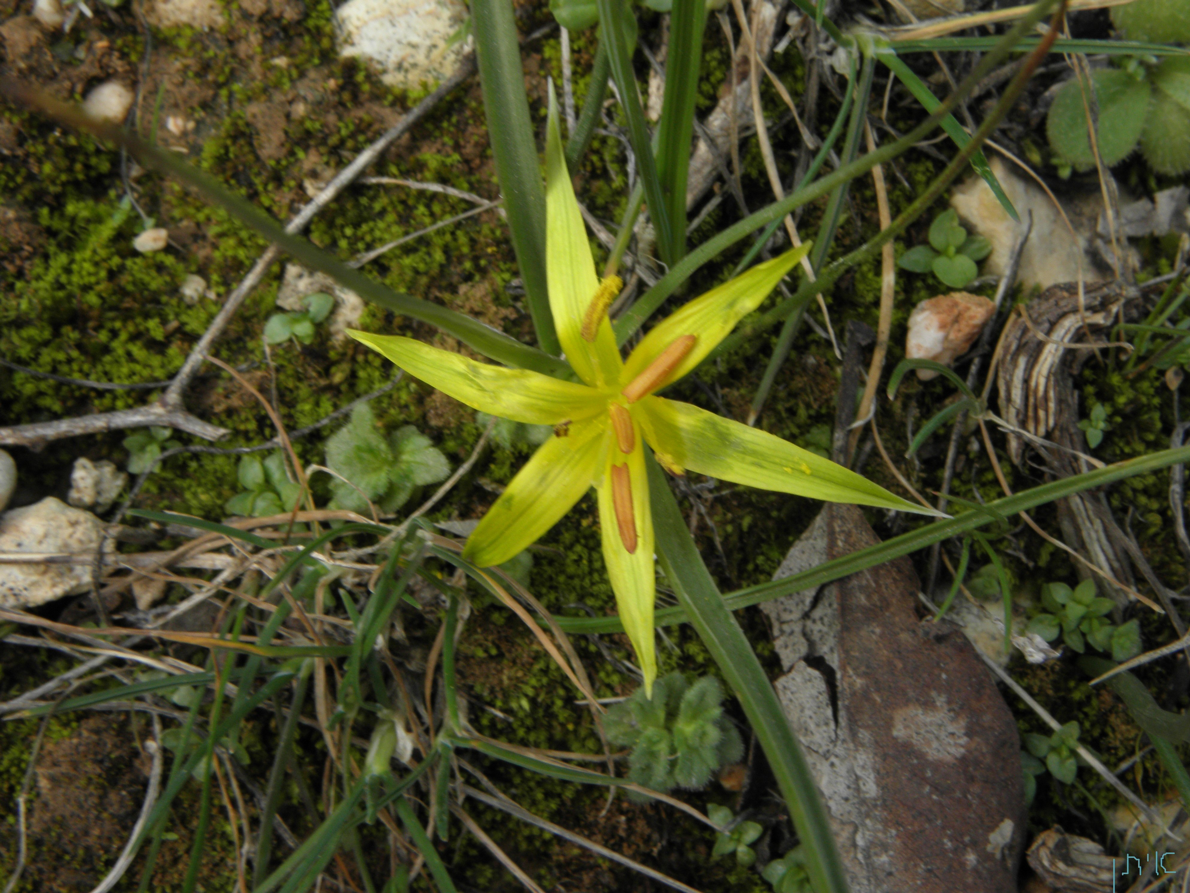 Gagea commutata, upper Galilee זהבית השלוחות - הר הלל